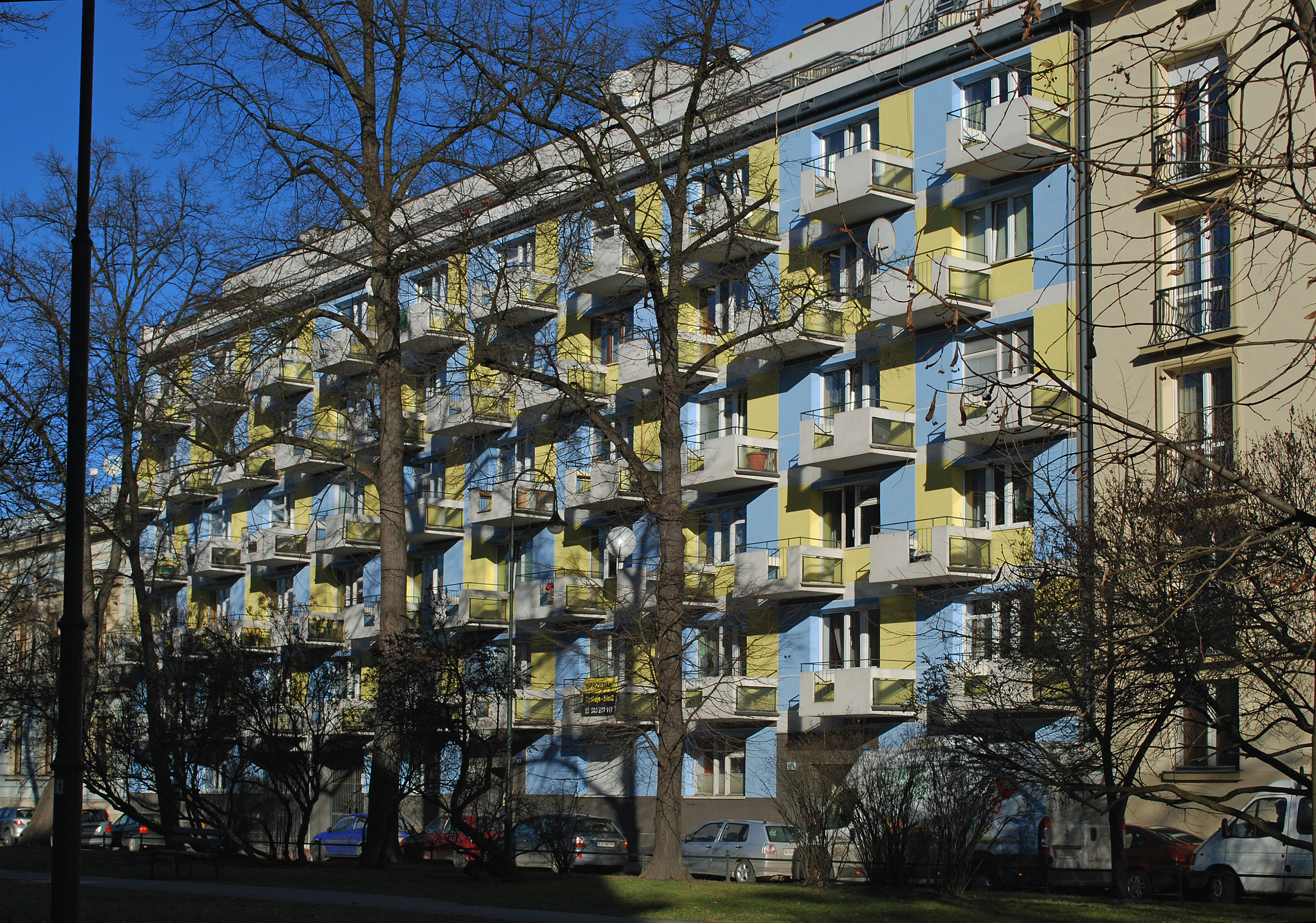 Sto Balkonów (Hundred Balconies) block of flats, 1962 by arch. Bohdan Lisowski, 4 Retoryka street, Krakow, Poland